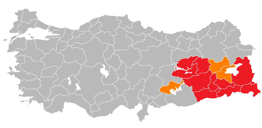 State of Emergency Legislation (OHAL) region in Turkey, 1987–2002 Ślůnski: Region w kerym łoperujom bojowkarze PKK